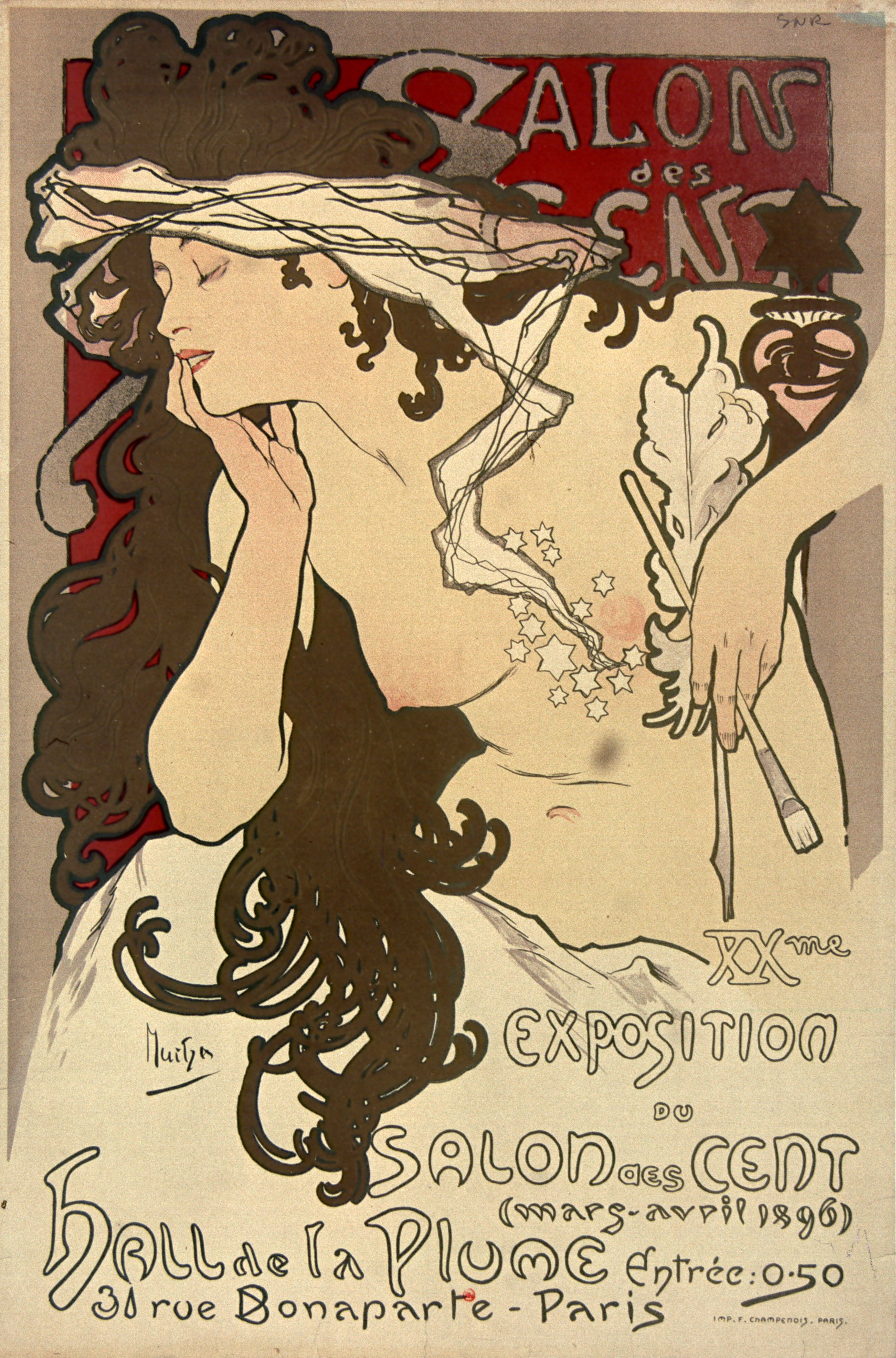 Poster Salon des Cents 1901, Musée des arts décoratifs, Paris.